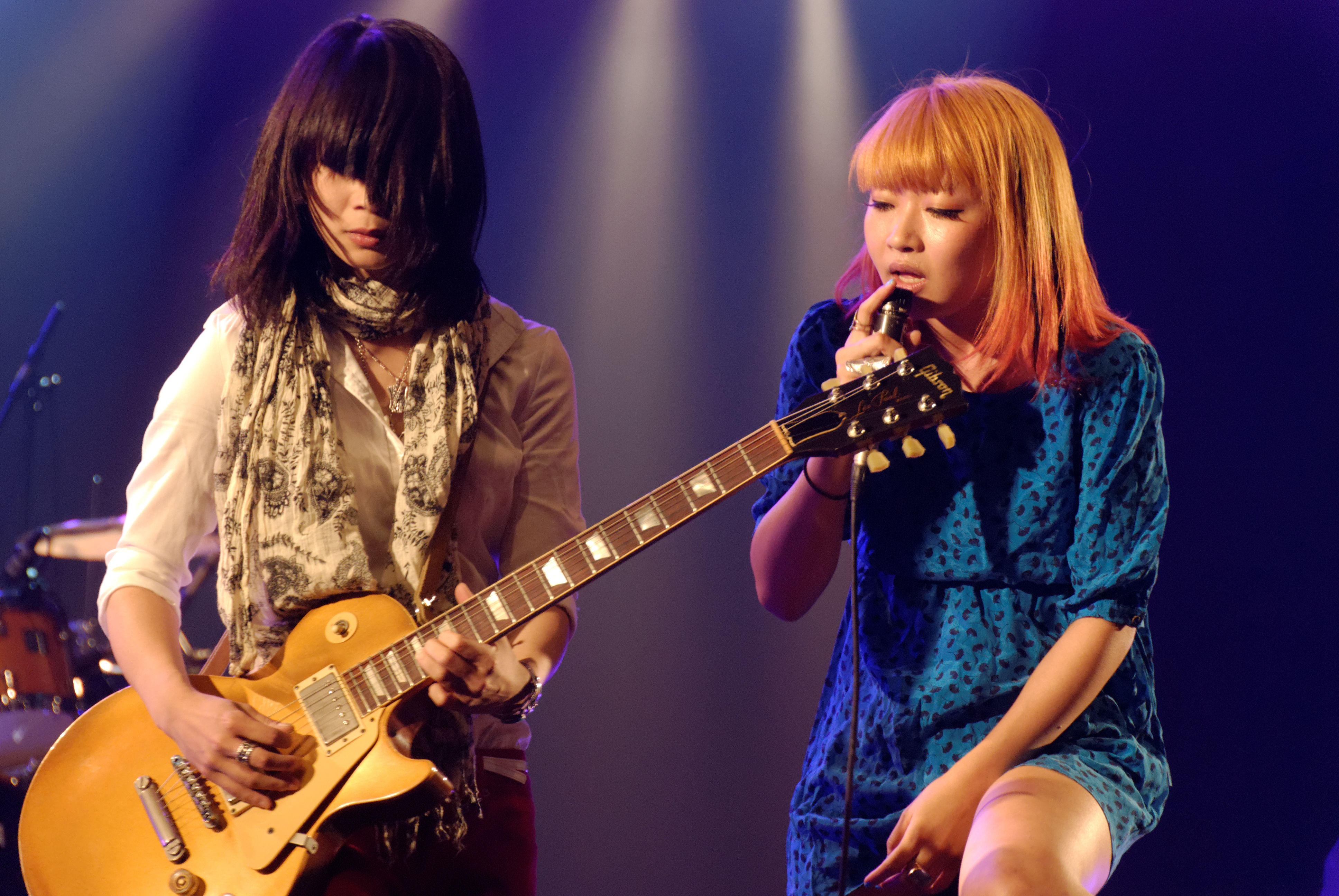 LAZYgunsBRISKY playing at Japan Expo 2011 in Paris